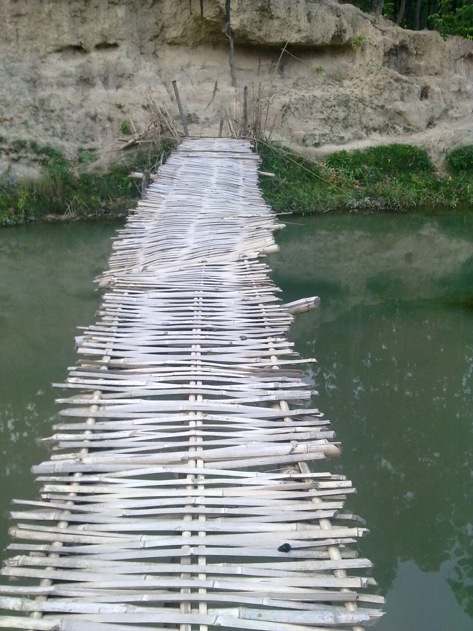 This is locally prepared bridge by the villagers made of bamboo. The main purpose of the bridge is to assist the cattle to cross the river.